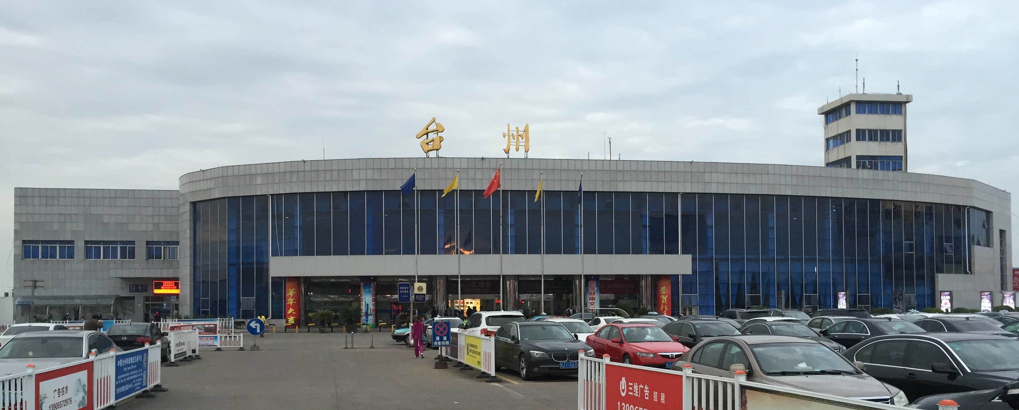 Taizhou Luqiao Airport on 25 April 2015